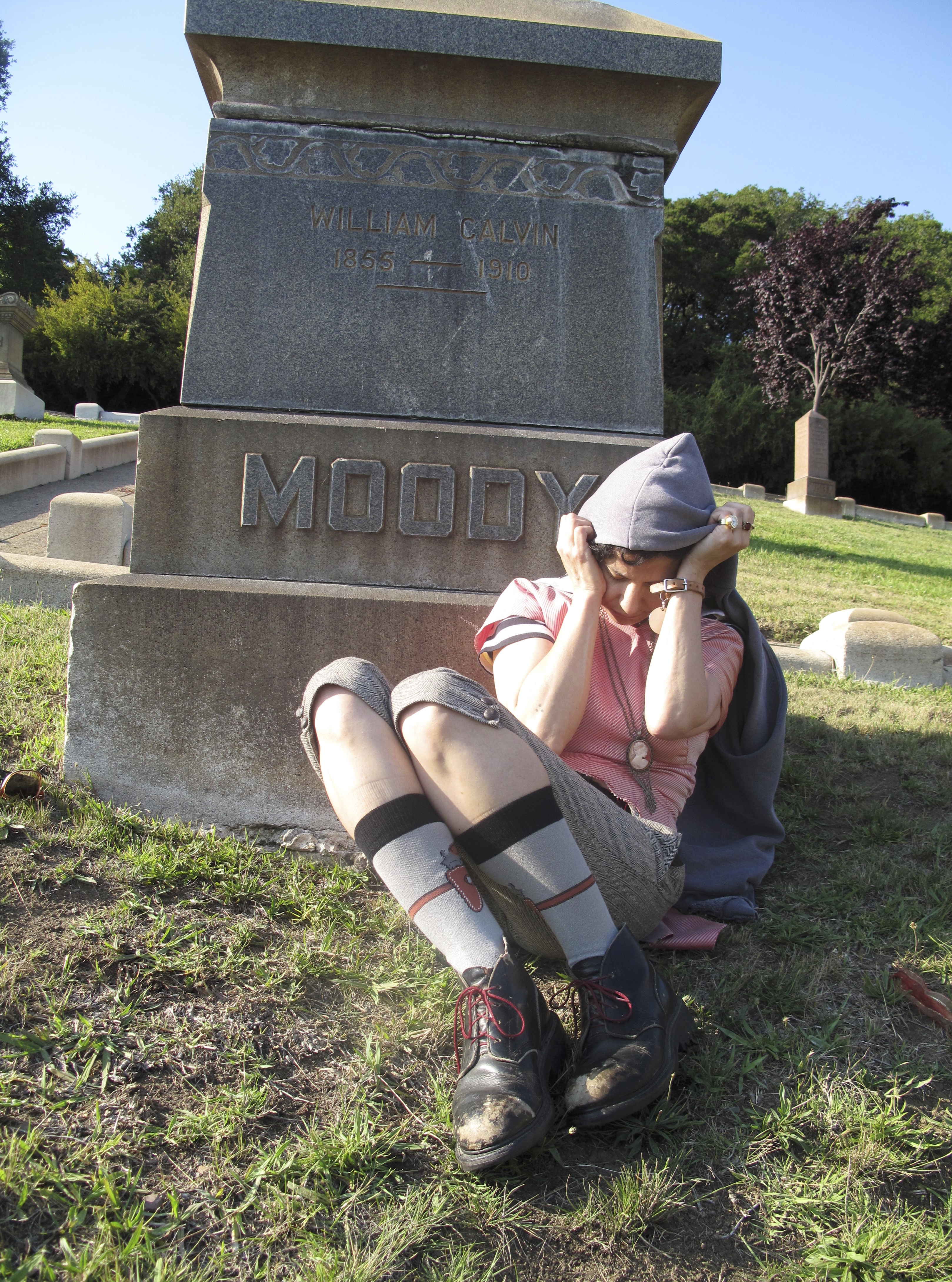 Carla Bozulich ~ Mountain View Cemetery ~ Oakland, Ca.